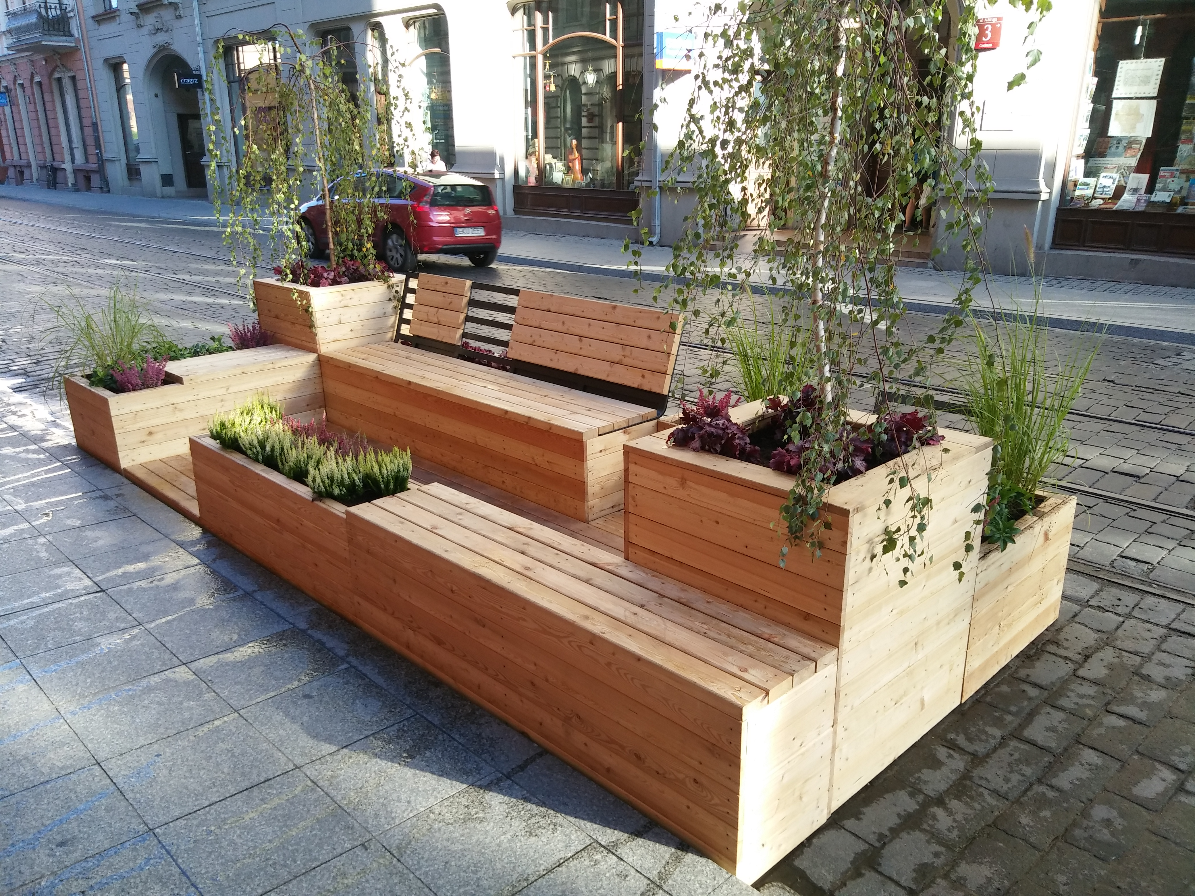 First parklet in Łódź - Struga Street near Piotrkowska